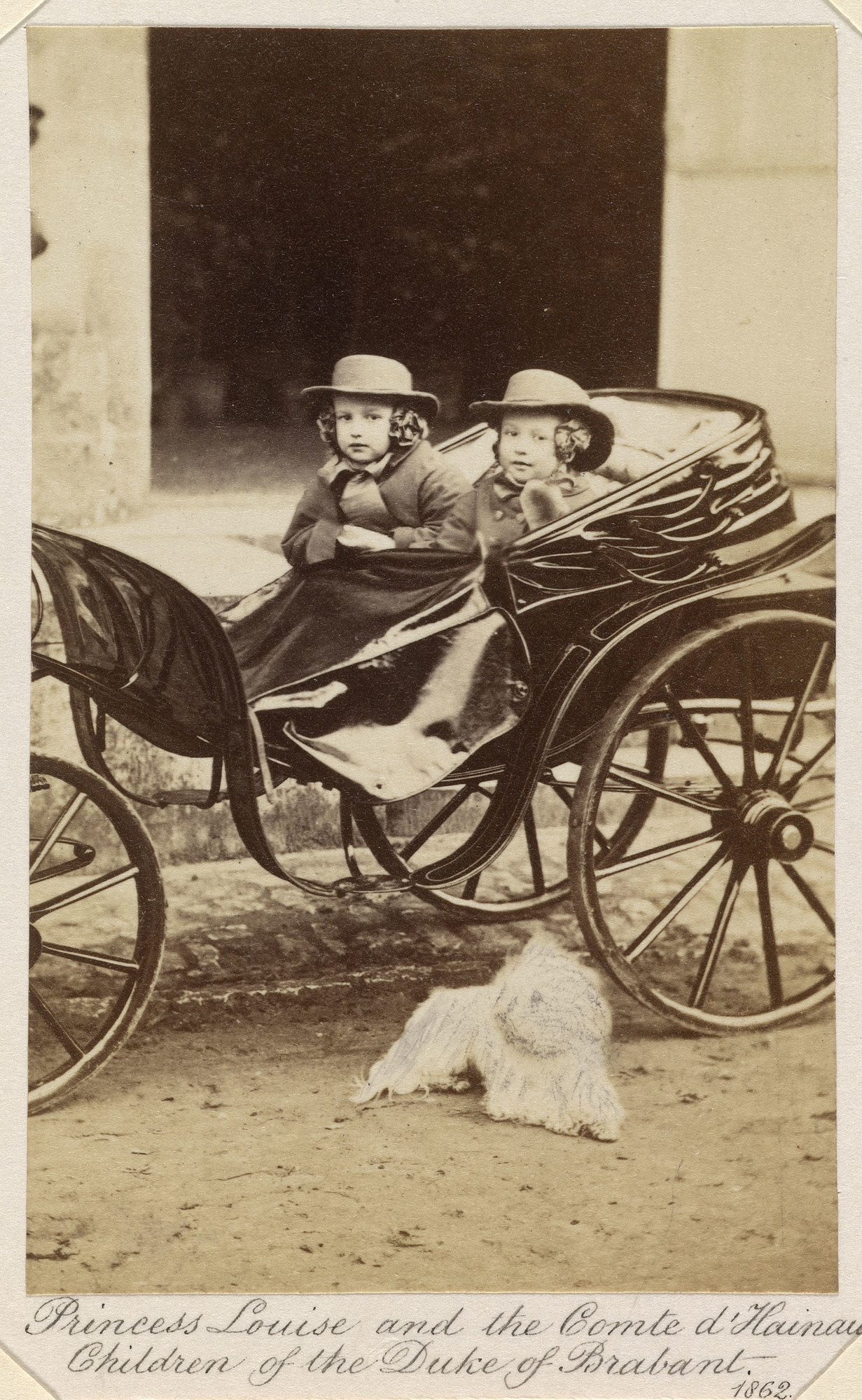 Princess Louise of Belgium (1858-1924) with her brother Léopold, Duke of Brabant (1859-1869), when Count of Hainaut . Léopold, Comte de Hainaut pictured sitting beside his sister, Princess Louise of Belgium (left) in an open carriage. Both face the viewer. A small white dog in the foreground.